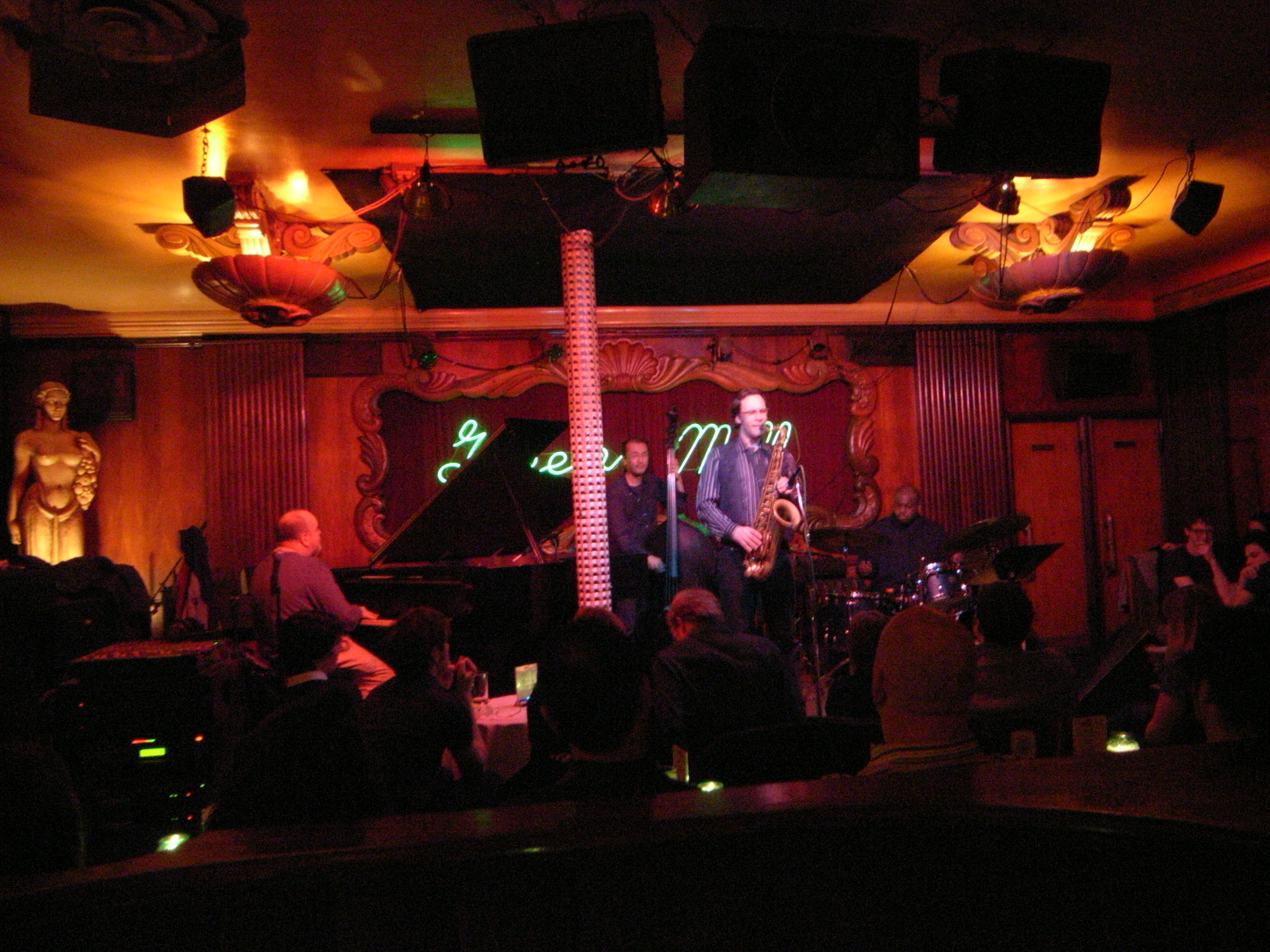 At Chicago's Green Mill Jazz Club